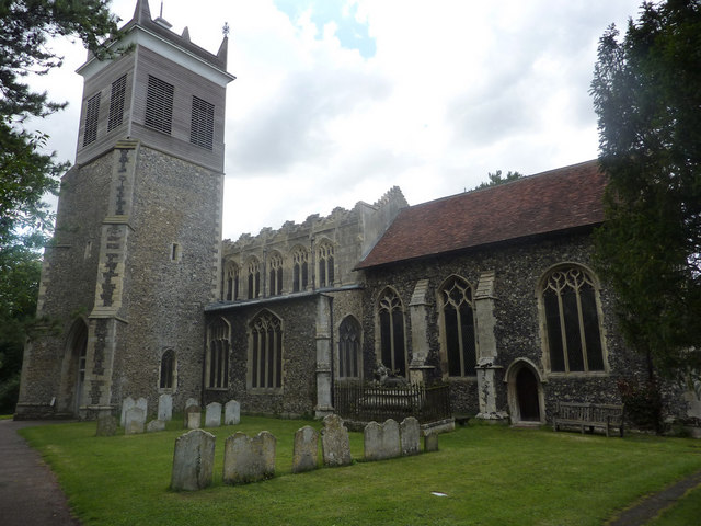 Church of St Mary and St Lambert in Stonham Aspal, Suffolk, England. A Grade I listed medieval church.